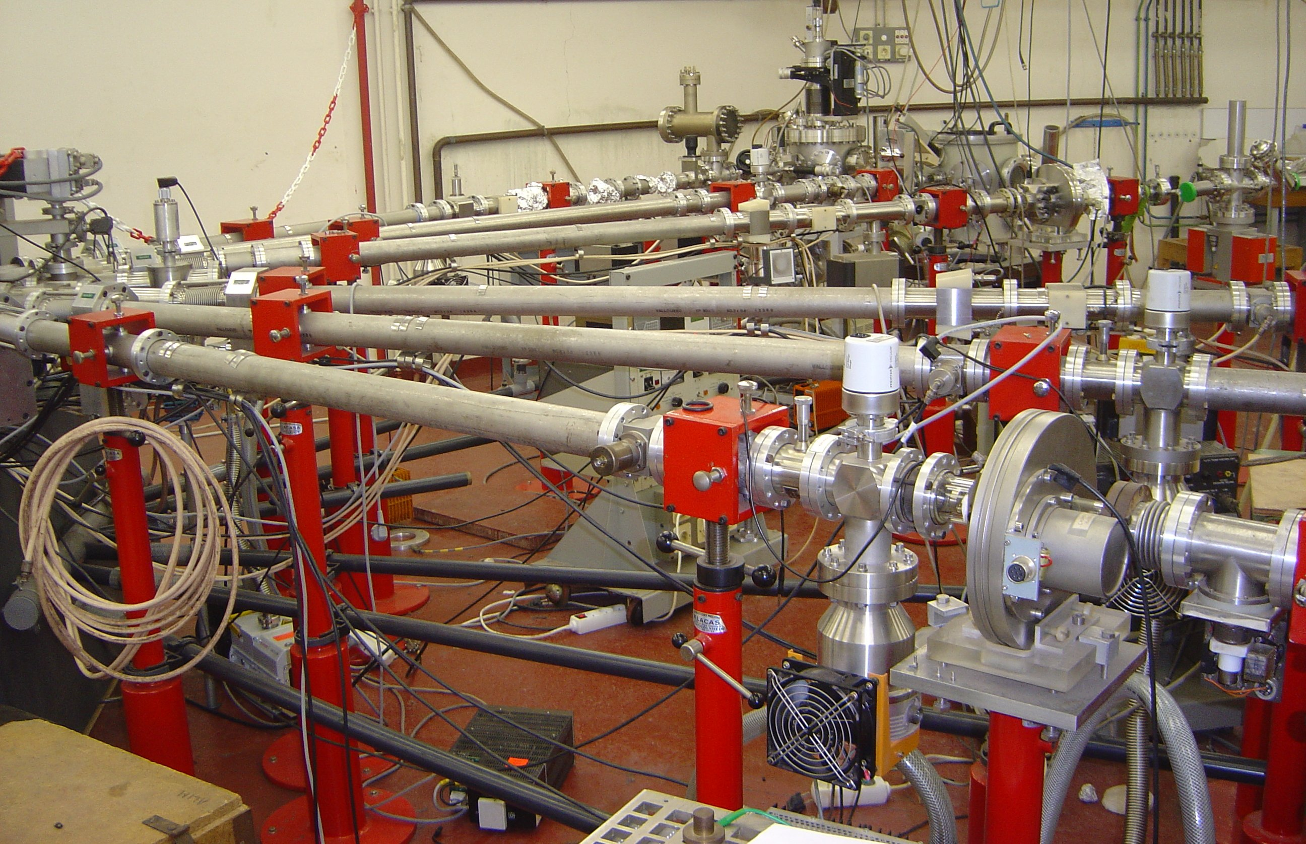 A Vandengraaf particle accelerator in the basement of the Campus universitaire de Jussieu.